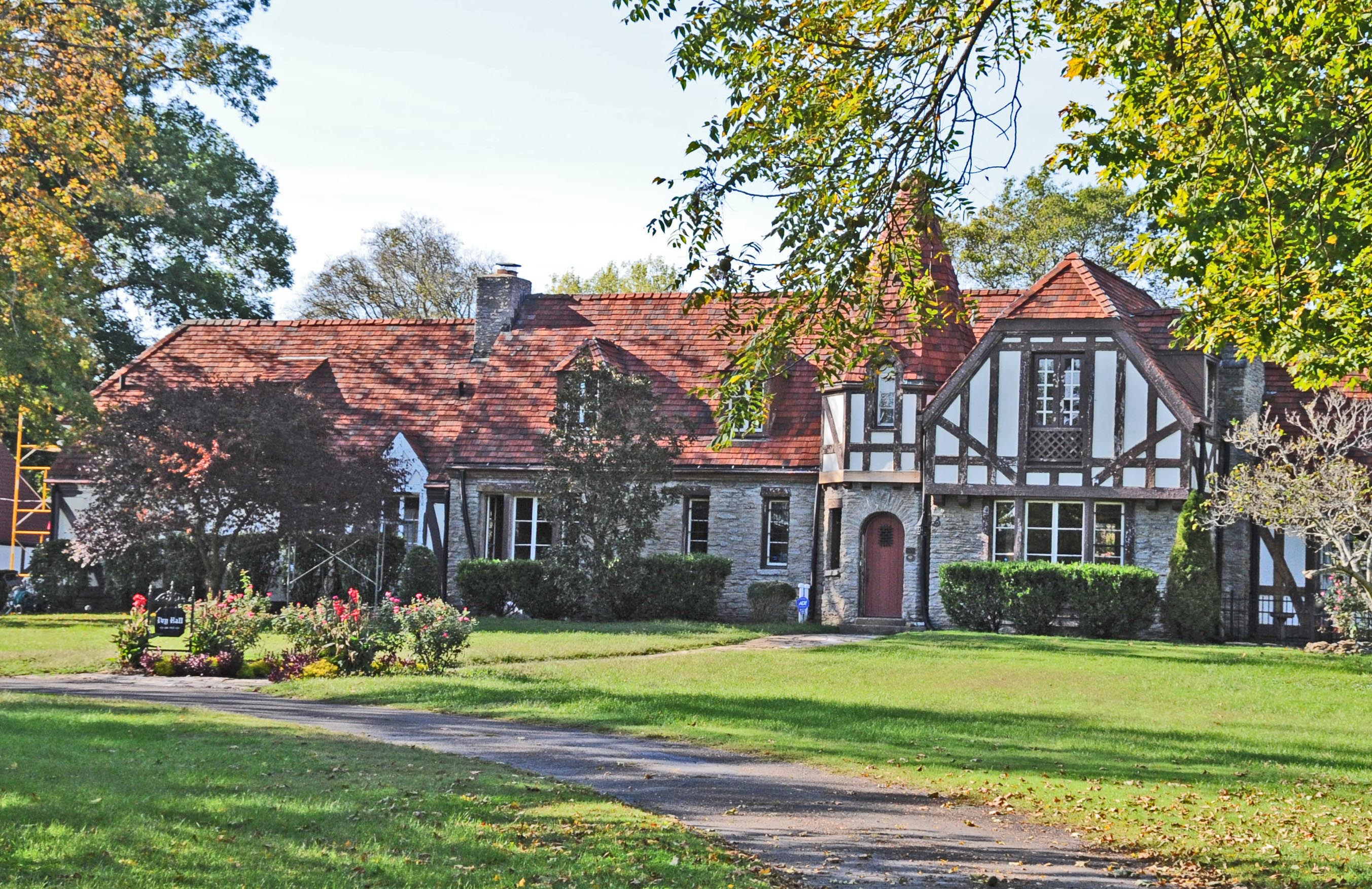 AKA DR. IVY HALL; BUILT IN 1936 IN TUDOR REVIVAL STYLE; EDWIN KEEBLE WAS THE ARCHITECT AND IT IS THE ONLY HOUSE OF THIS DESIGN IN THE NASHVILLE AREA